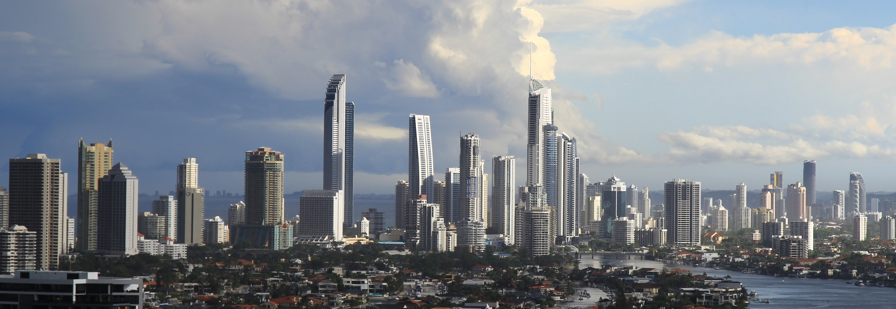 The Gold Coast Skyline in 2015. Image has been cropped.